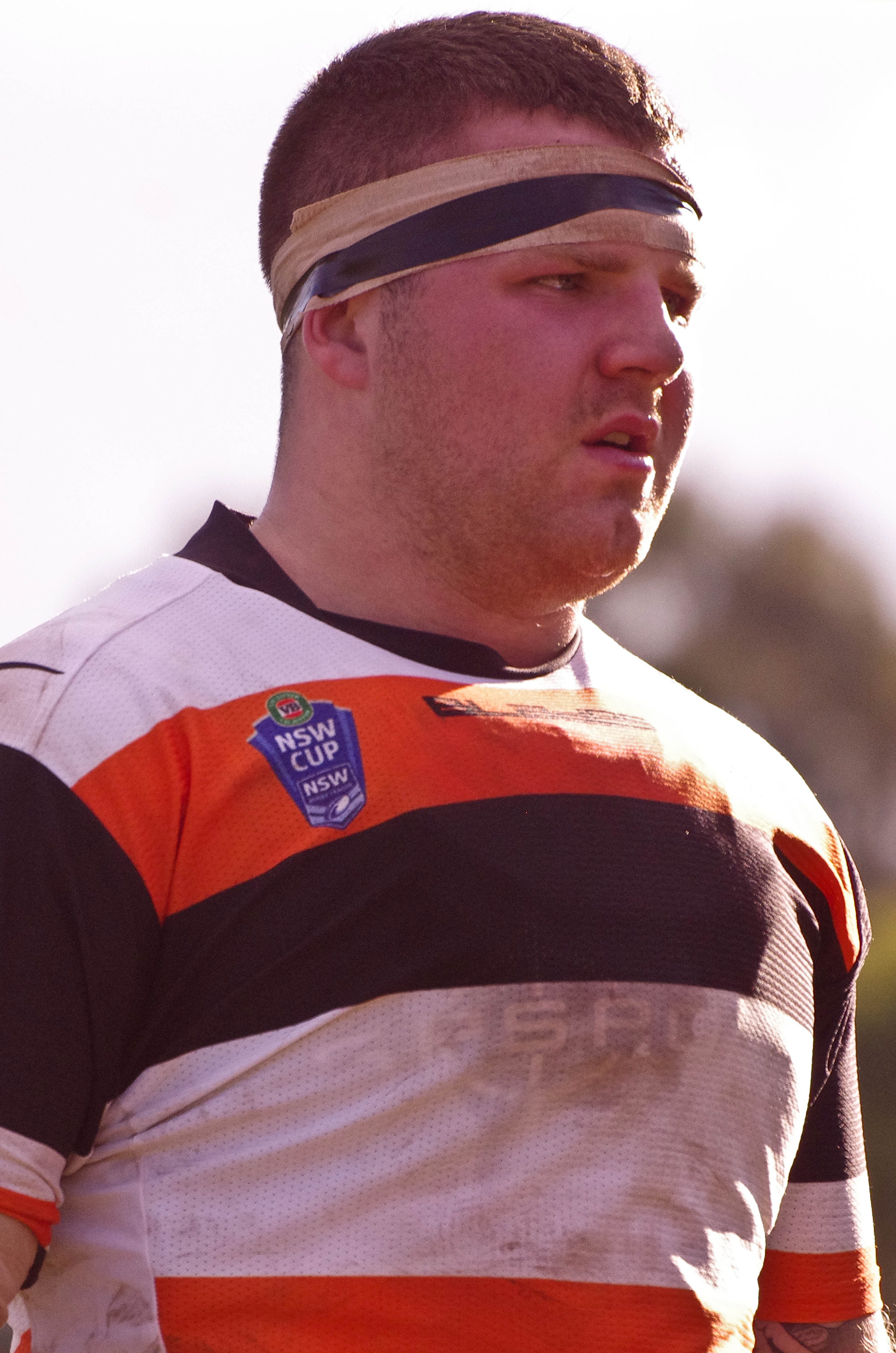 Nathan Brown